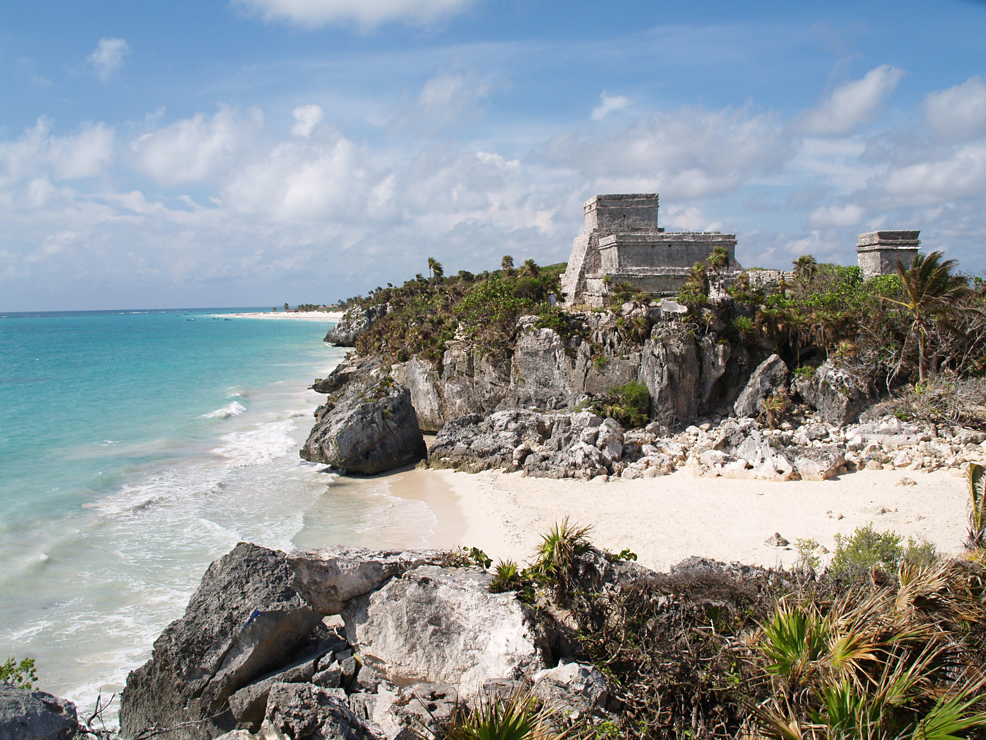 Castillo and Bay, Site of Tulúm, Quintana Roo, Mexico